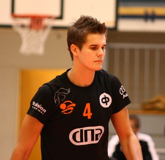 Henri Rajala finland volleyball player season 2008.